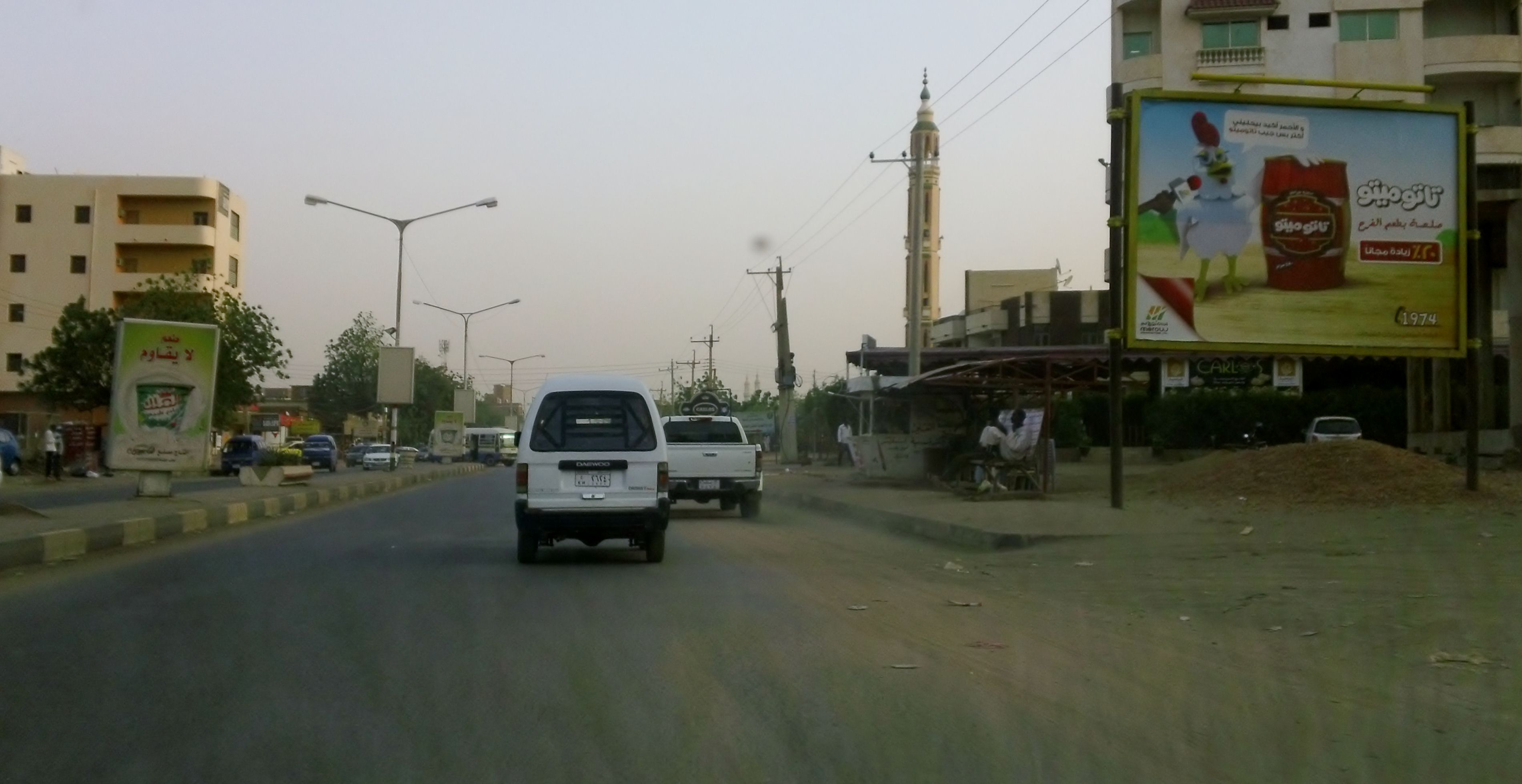 Said Ali Street – Khartoum Bahri - Sudan